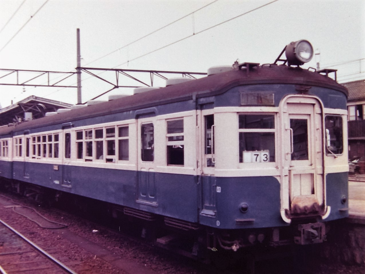 JNR EMU car KuHa 68414